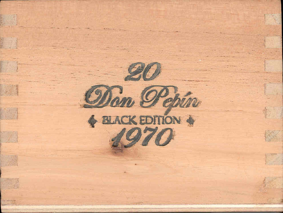 Scan of the side of a box of Don Pepin Garcia Black Edition cigars; 600 dpi